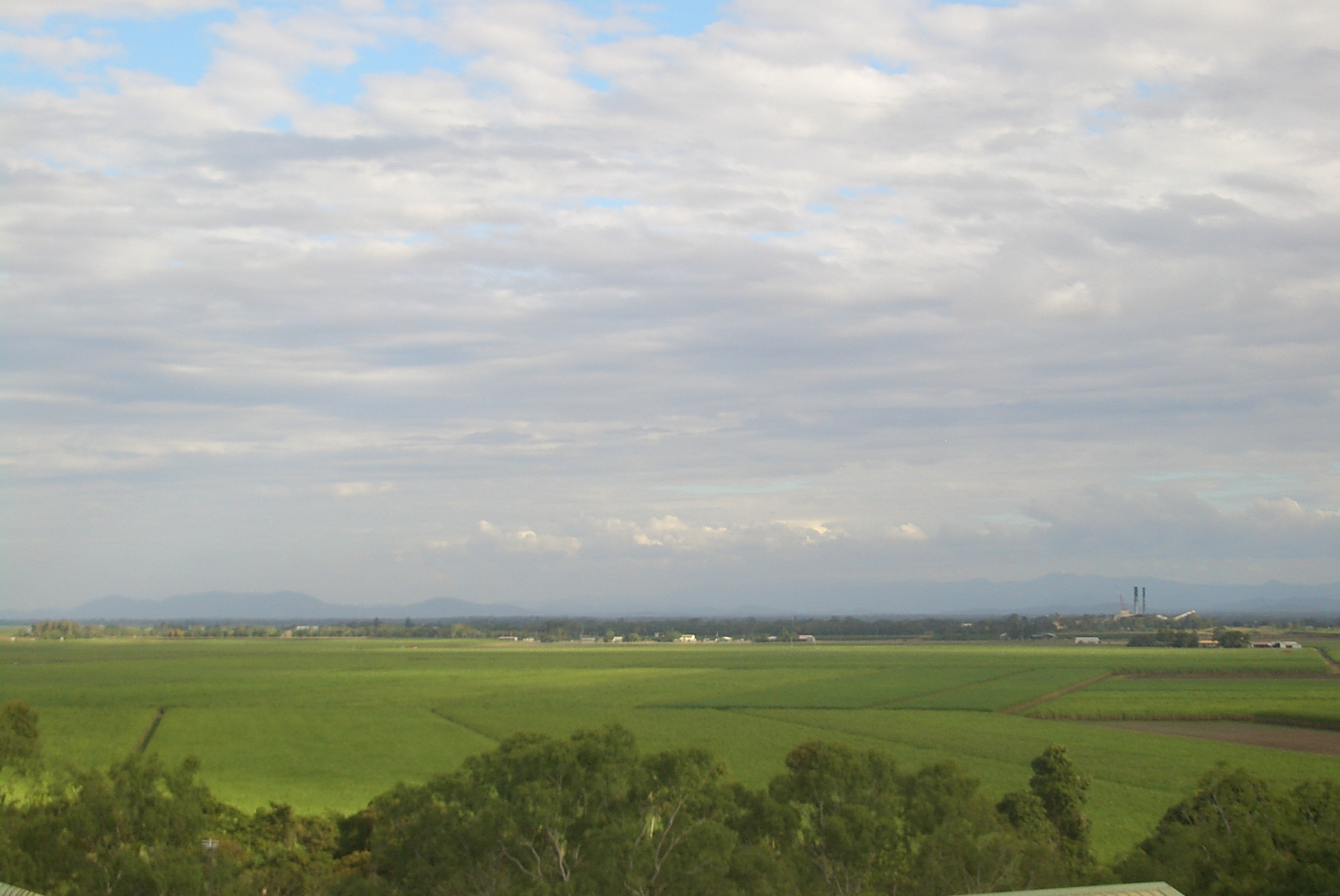 A view of the small town of Proserpine, Queensland, surrounded by sugarcane fields. Proserpine Sugar Mill, with its smokestacks, is the tallest structure on the right.